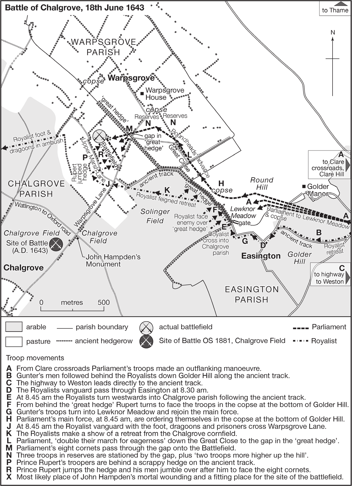 The manoeuvres of the armies during the battle of Chalgrove